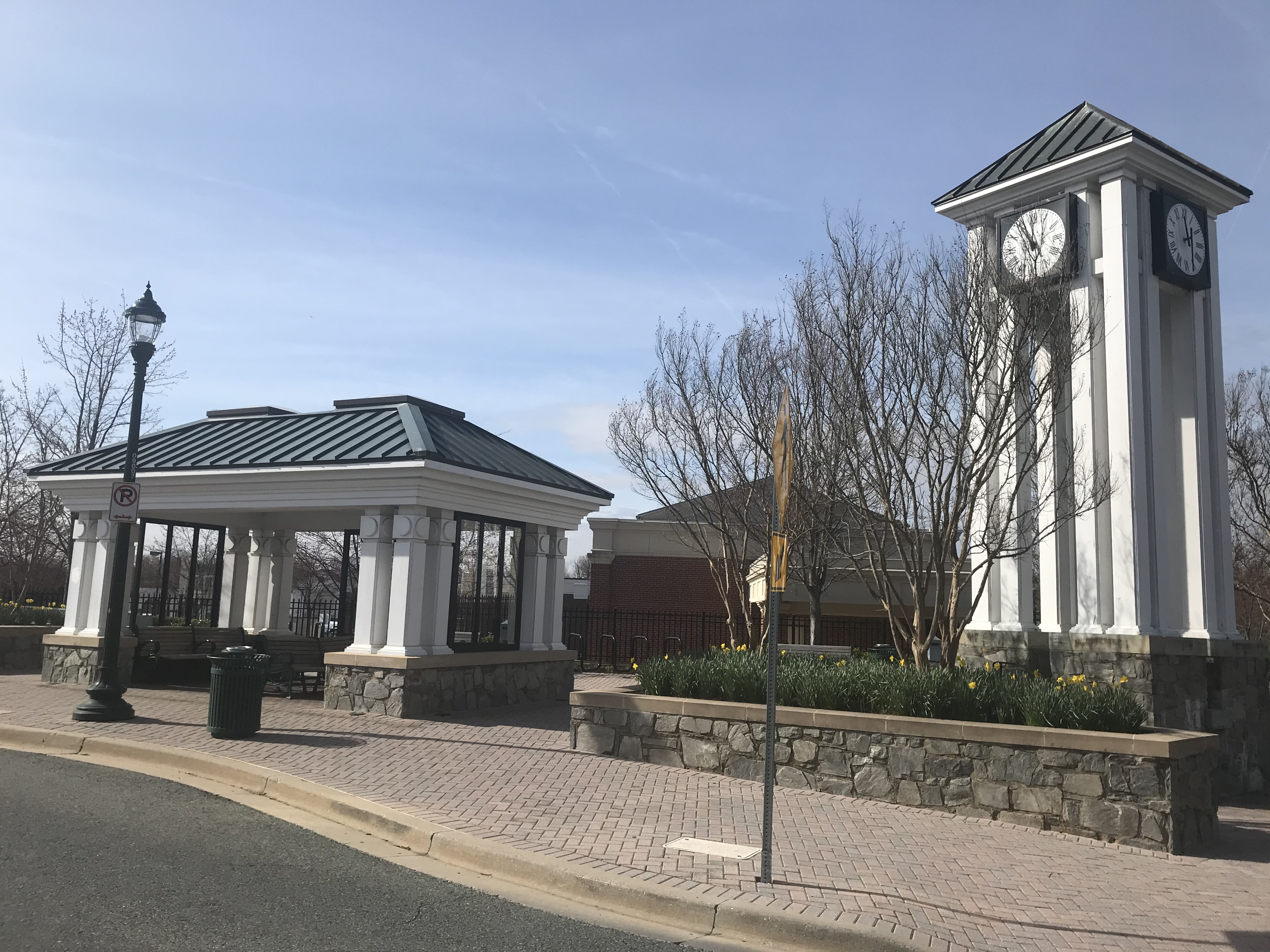 Traville Transit Center bus stop near Universities at Shady Grove in North Potomac, Maryland, USA. At the time of the photo, school was cancelled because of the coronavirus.